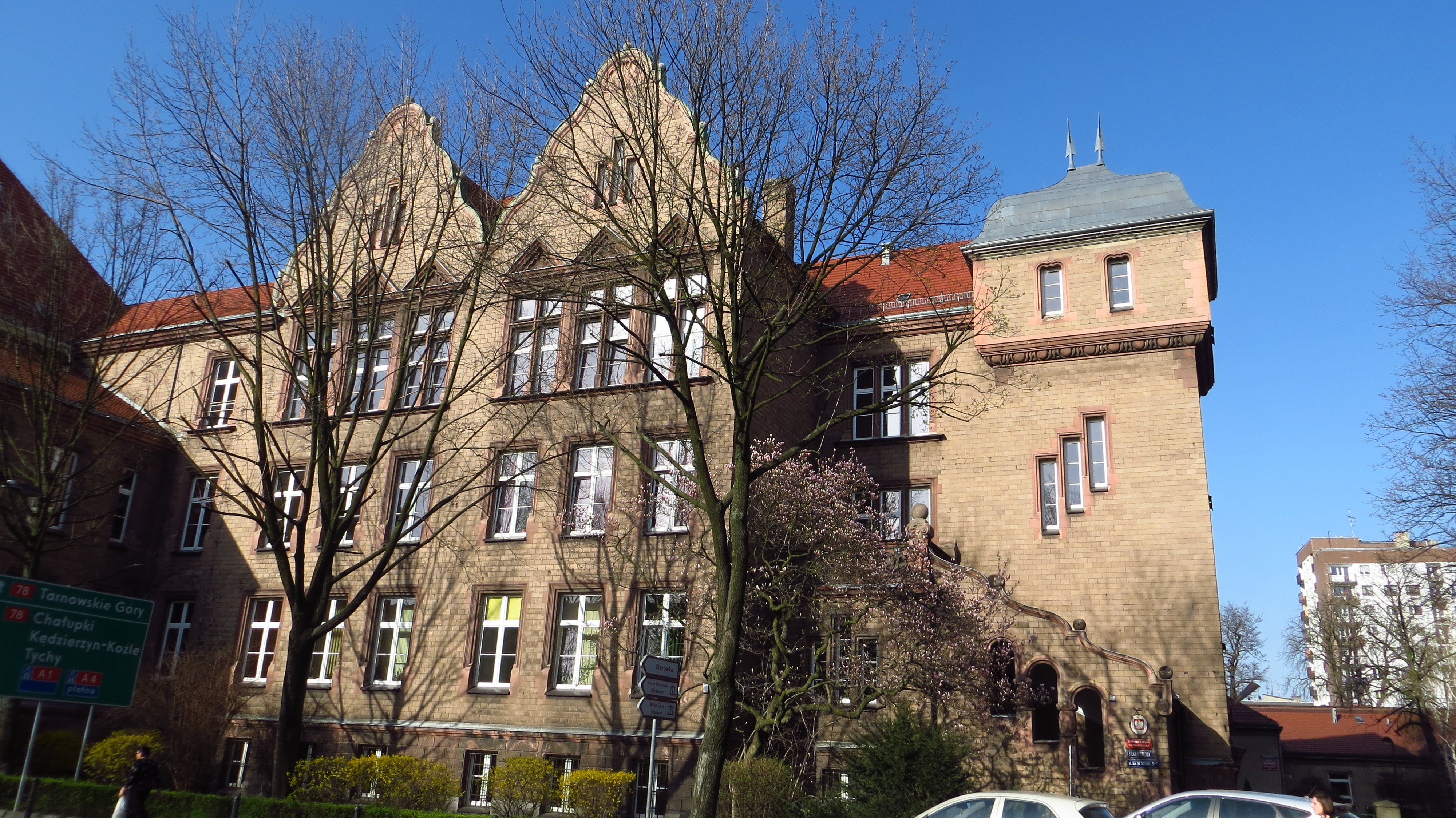 One of the building of Chemistry faculty at Silesian Technical University